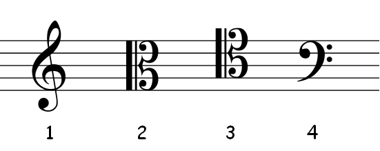 The 4 common musical clefs using nowaday